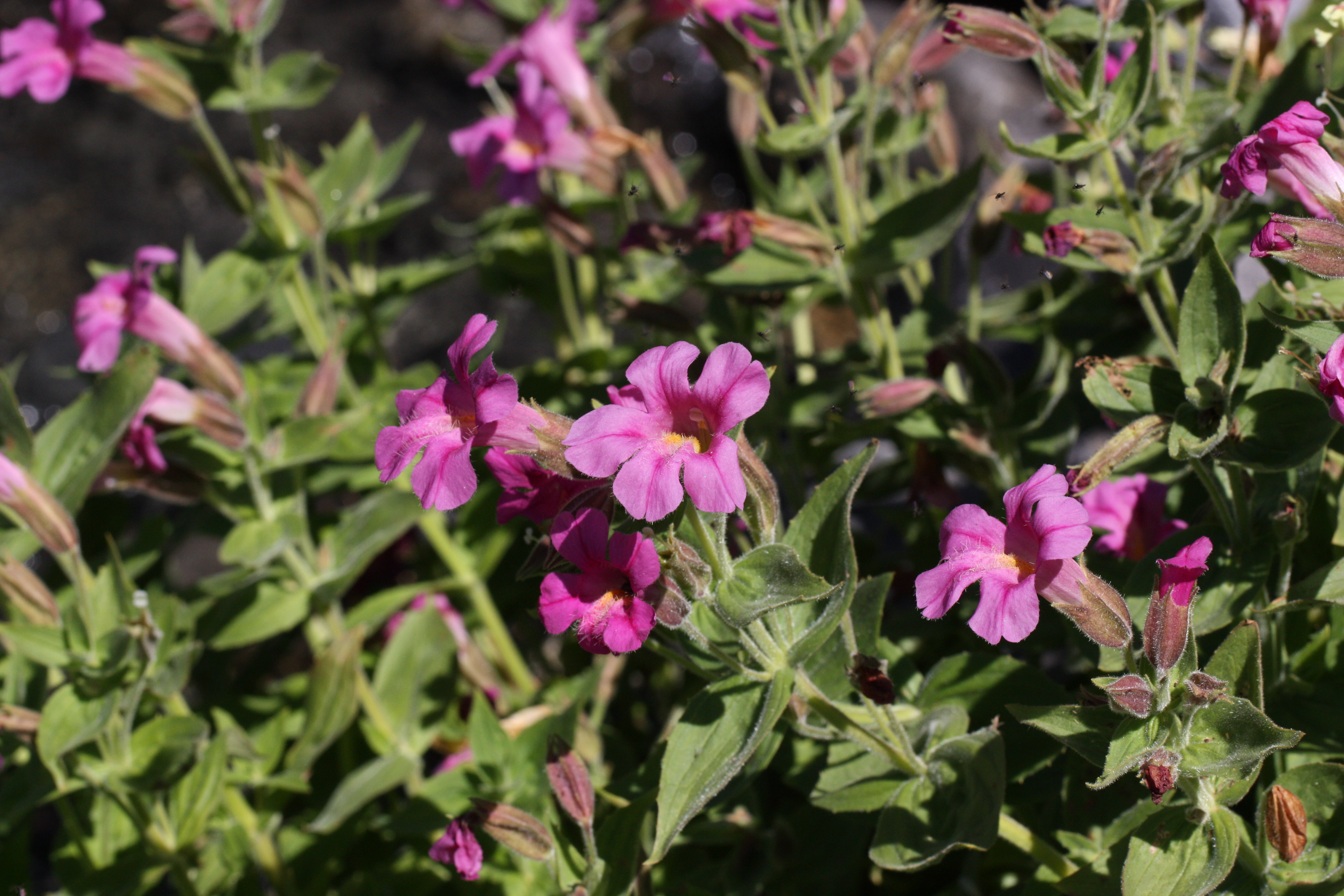 Purple Monkey-flower